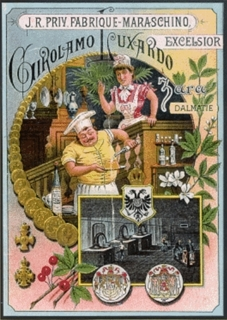 Advertisement of Girolamo Luxardo. Confectionery advertising, Vienna.